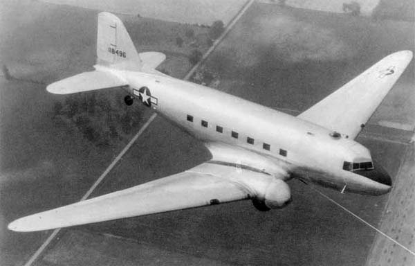 Douglas XCG-17 assault glider, converted from C-47-DL 41-18496, under tow during flight testing.